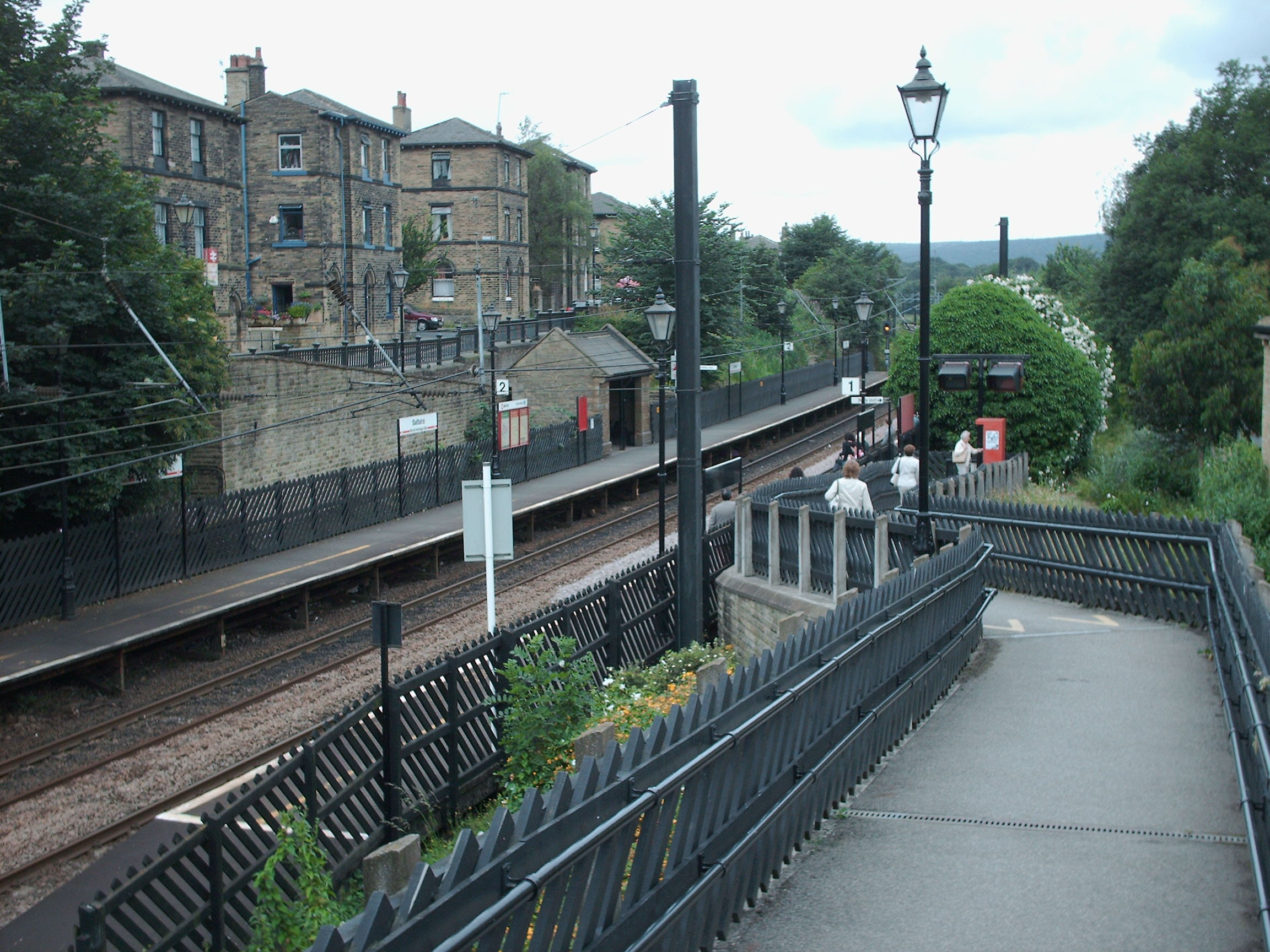 Saltaire railway station, West Yorkshire, England. Looking down from the entrance ramp to platform 1.